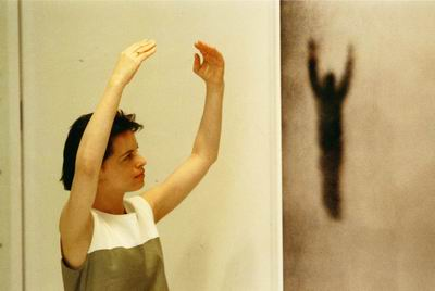 Photograph